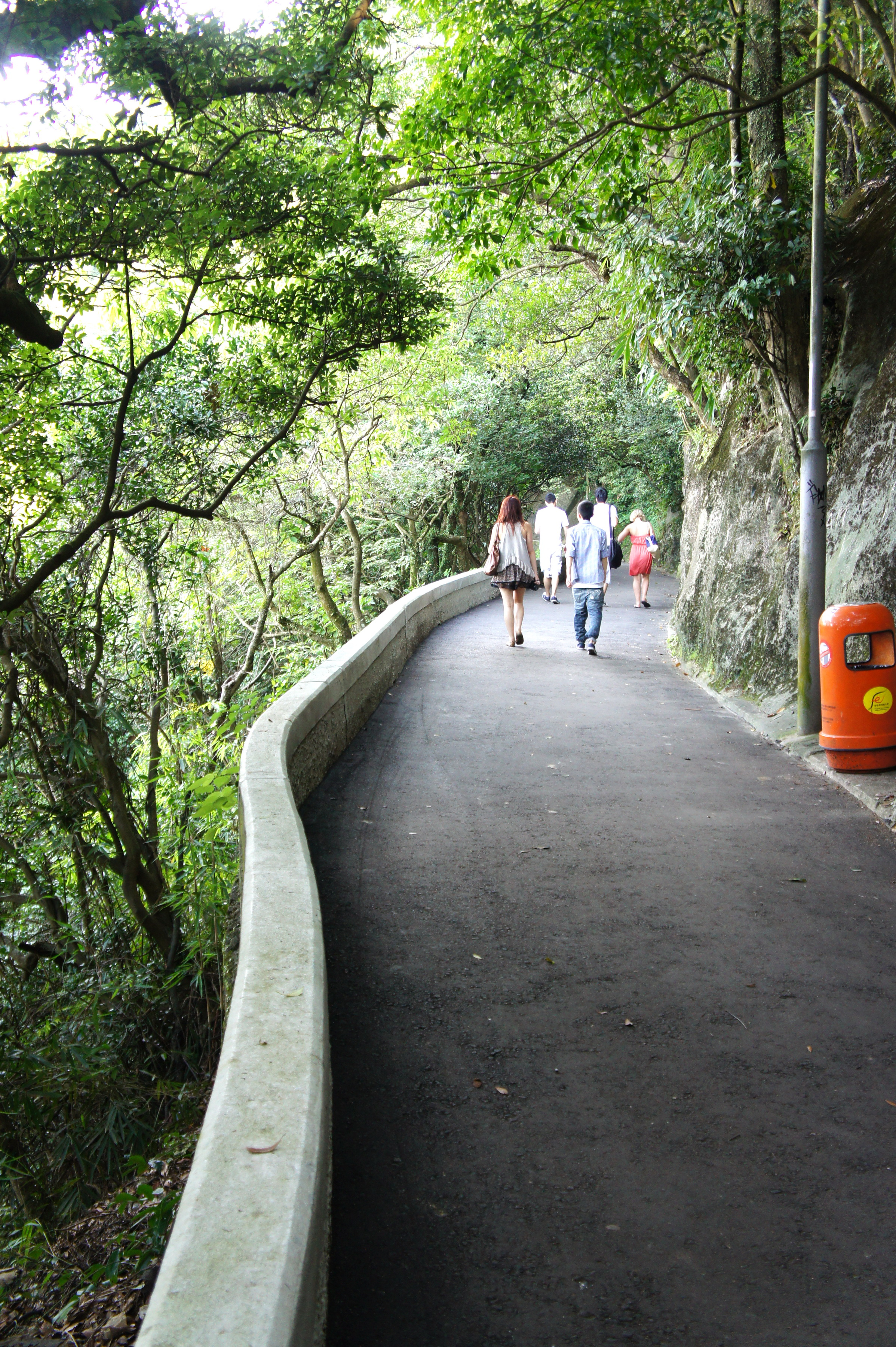 Findlay Path, the Peak, Hong Kong.